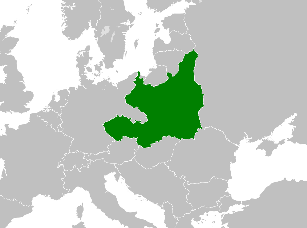 The Polish-Czechoslovak Confederation/Federation (it was not clear if it was going to be a confederation or a federation) was proposed by the Polish Government-in-exile before World War 2.